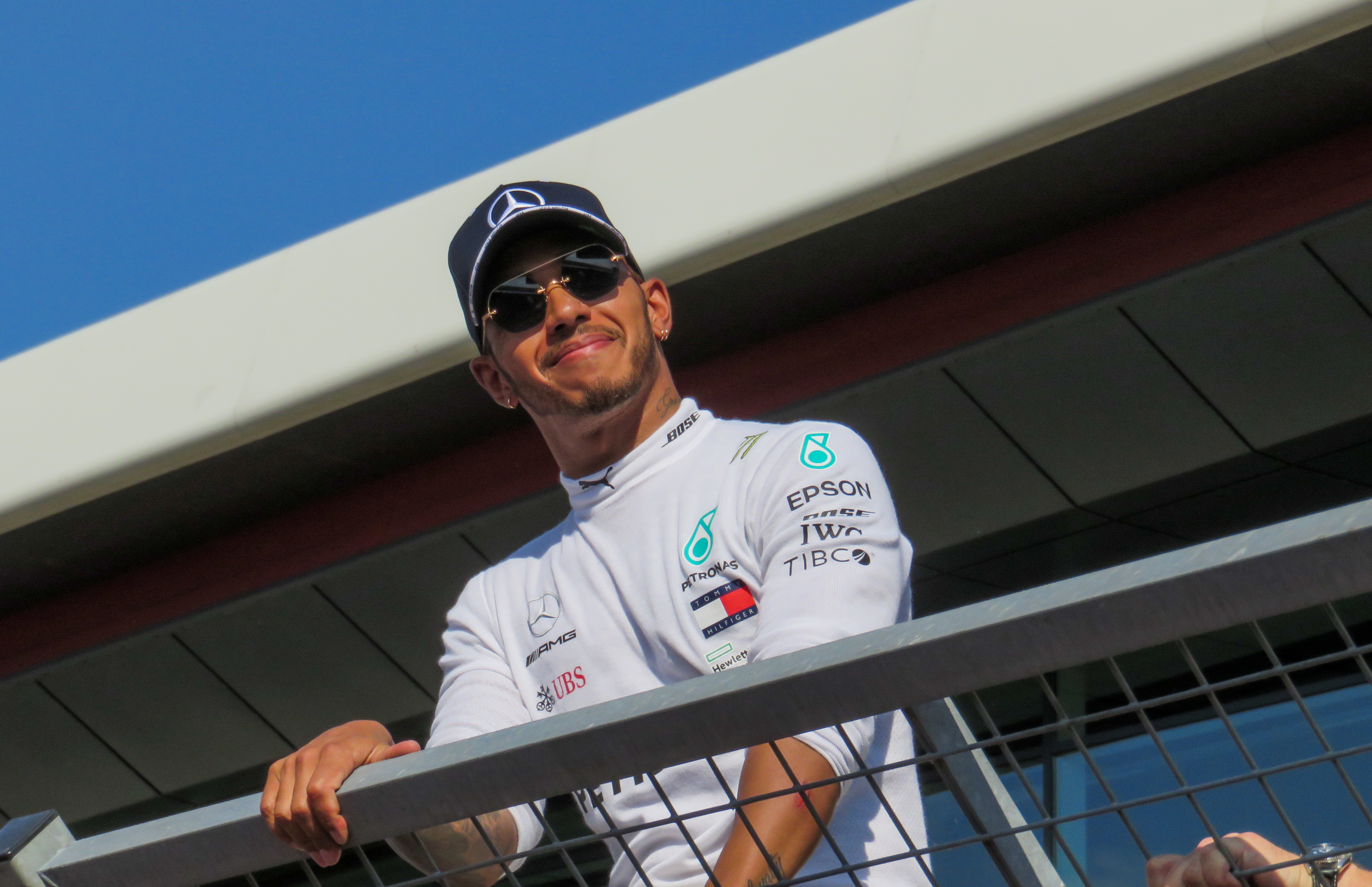 Lewis Hamilton visiting fans at the 2018 British Grand Prix at Silverstone